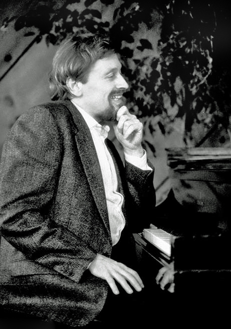 Adam Makowicz at Bach Dancing & Dynamite Society, Half Moon Bay CA, mid-1980s. Photo: Brian McMillen /